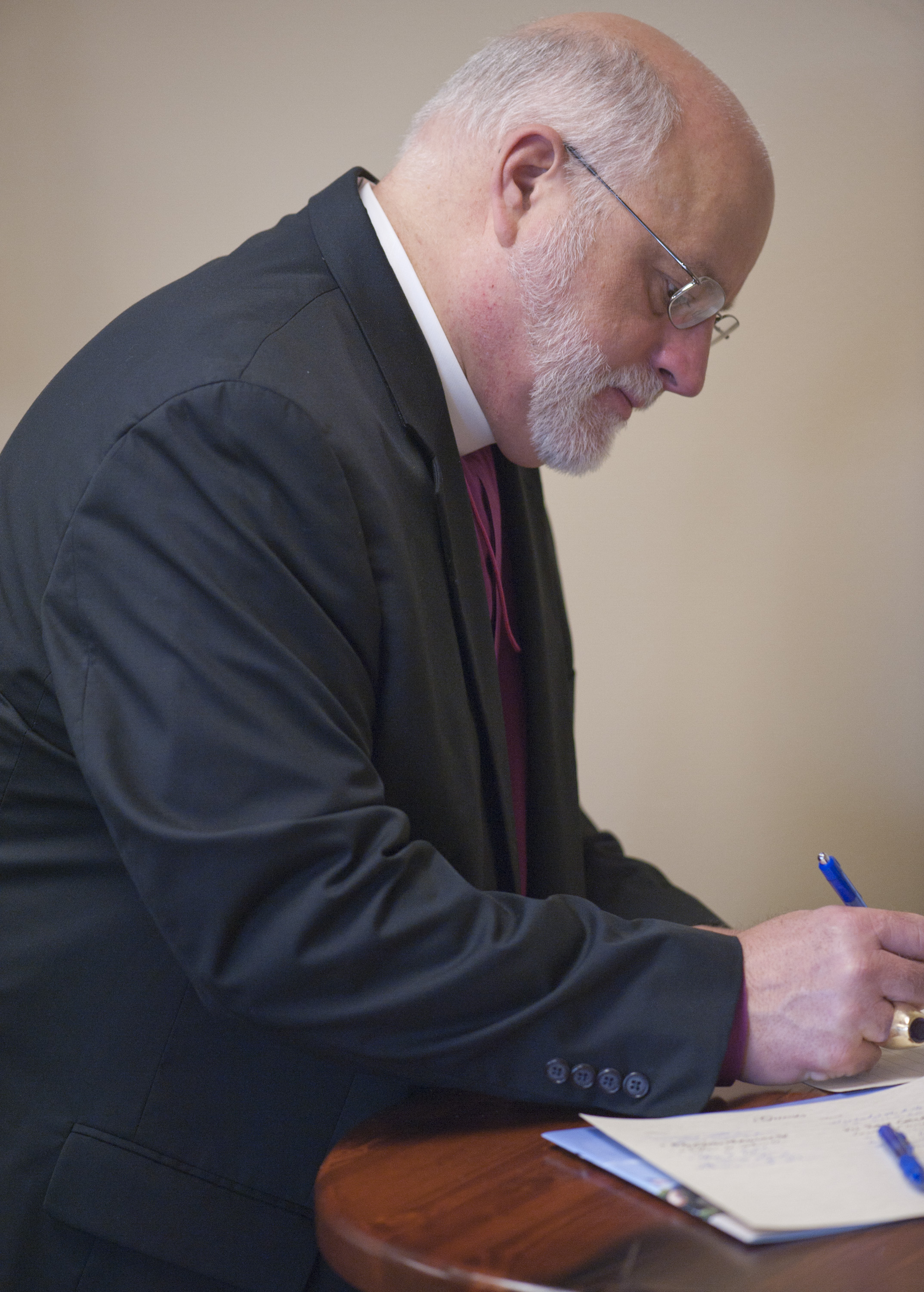 Bishop Stacy Sauls, Chief Operating Officer of the Episcopal Church, former bishop of the Episcopal Diocese of Lexington